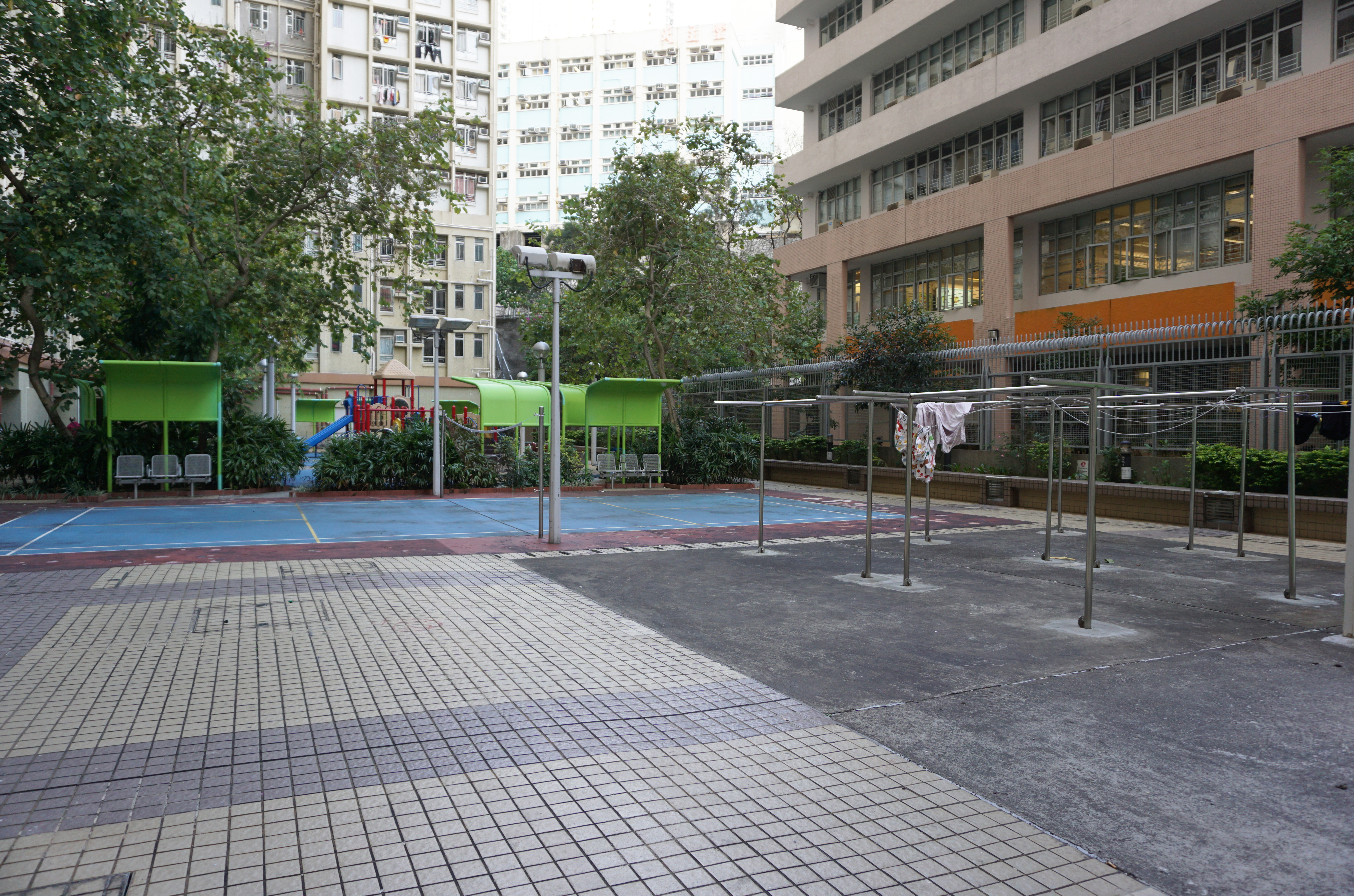 Shek Yam Estate in Shek Yam, Hong Kong.